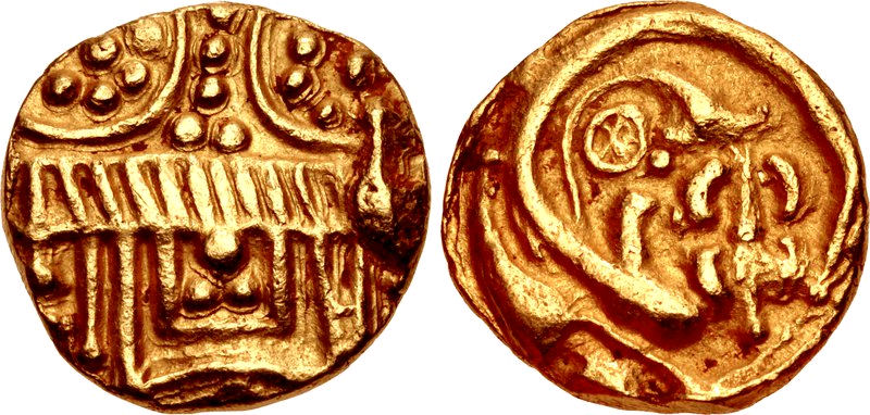 Western Chalukyas of Kalyana King Somesvara I Trailokyamalla 1043-1068. AV Pagoda (15mm, 3.90 g, 5h). Temple façade / Ornate floral ornament.